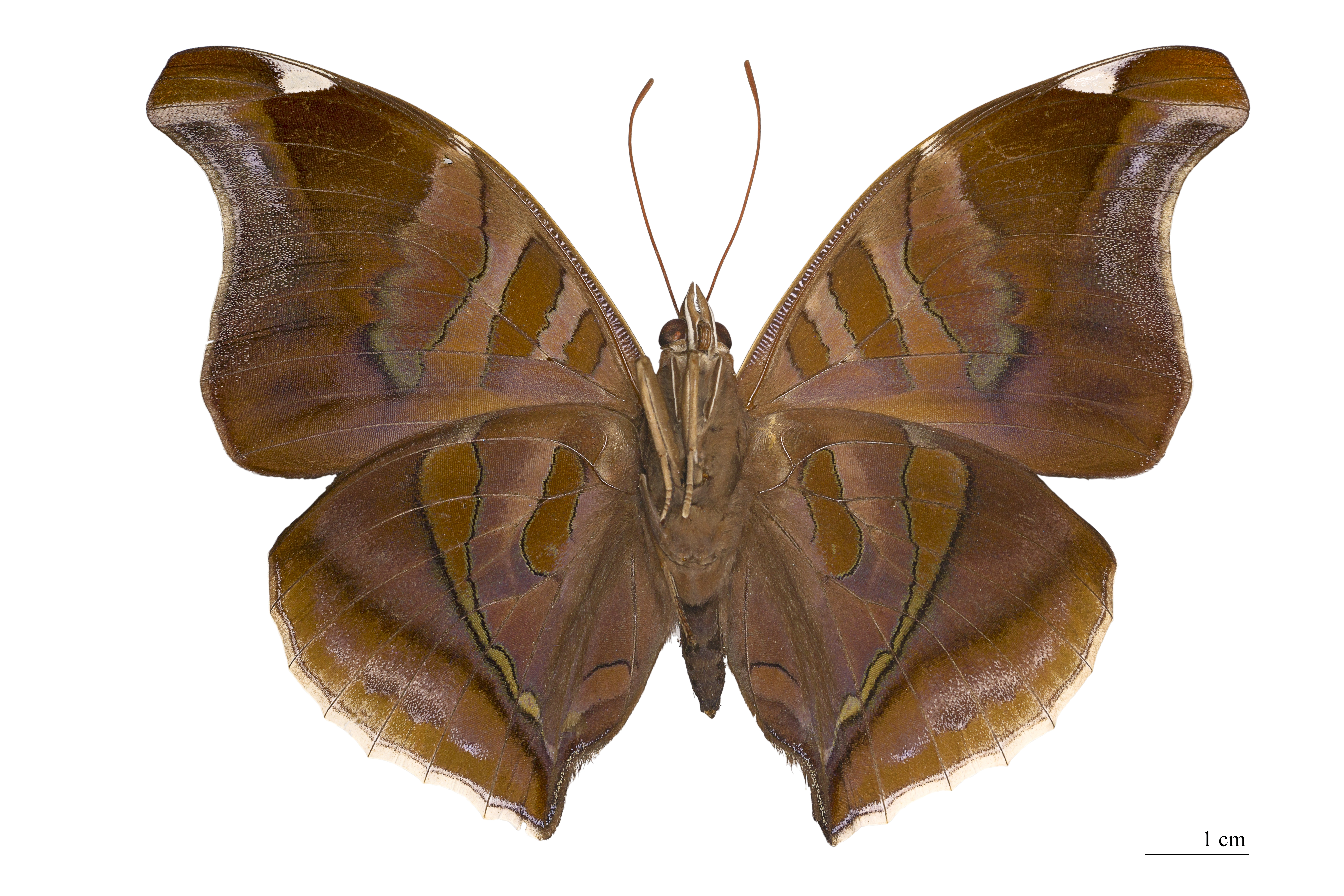 Male specimen - Ventral side Locality: Cali Colombia